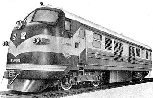 The first diesel-hydraulic locomotive in China, produced by Qingdao Sifang Locomotive & Rolling Stock Factory